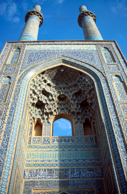 Friday Mosque of Yazd, Iran.